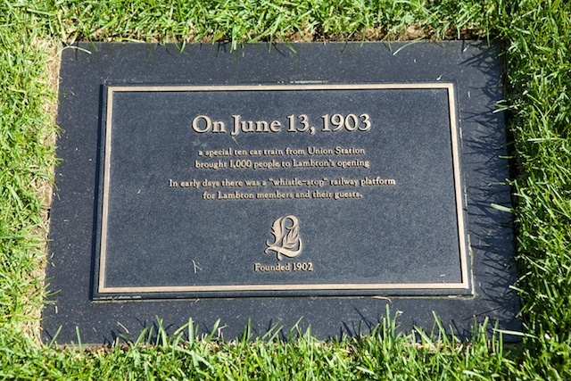 Lambton's Course Opening and the train station;Other information: I took on Lambton Golf Club